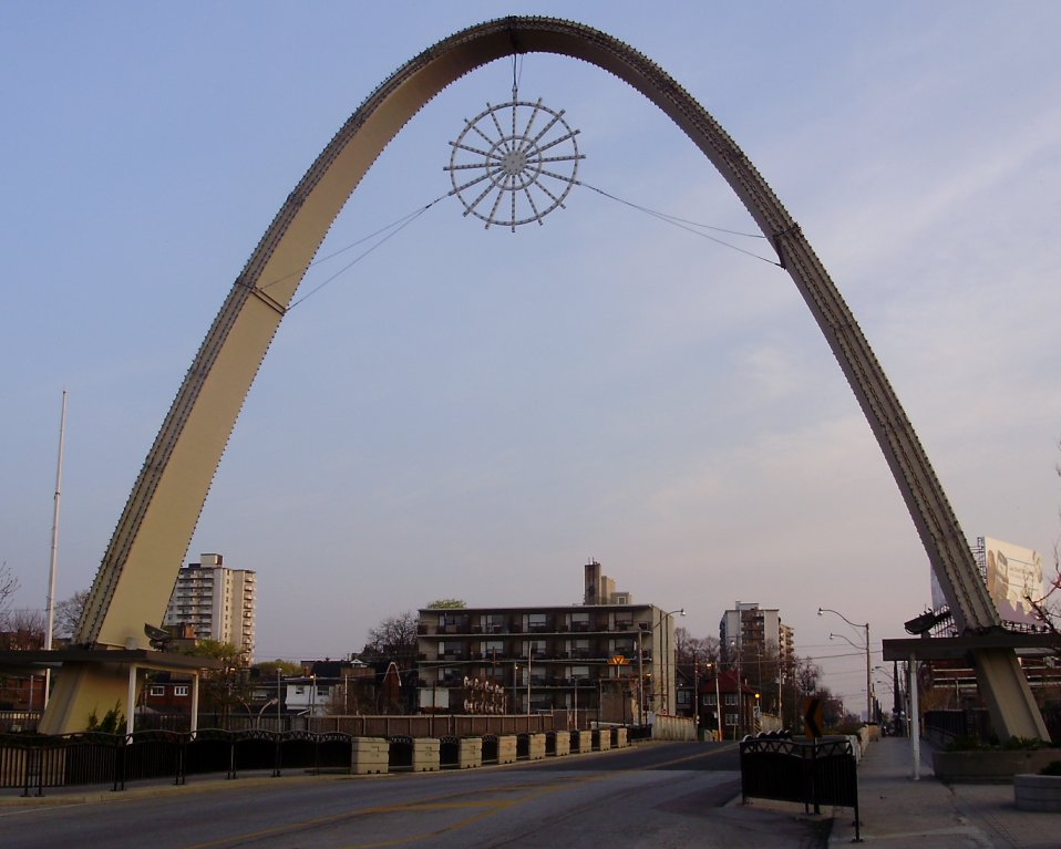 The Dufferin Gates at the foot of Dufferin Street in Toronto, ON, looking north.